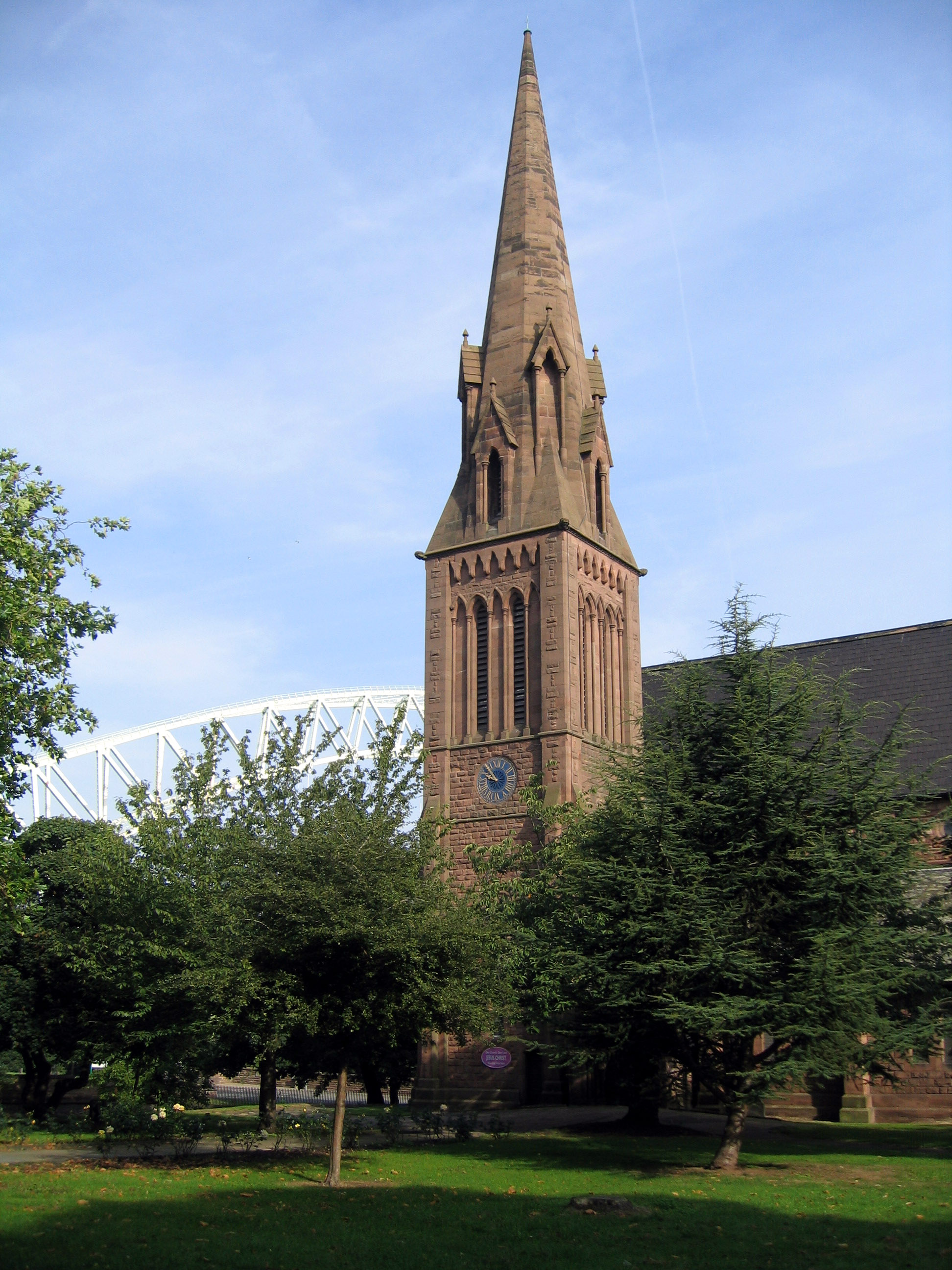 Photograph taken by me on 3 September 2005.